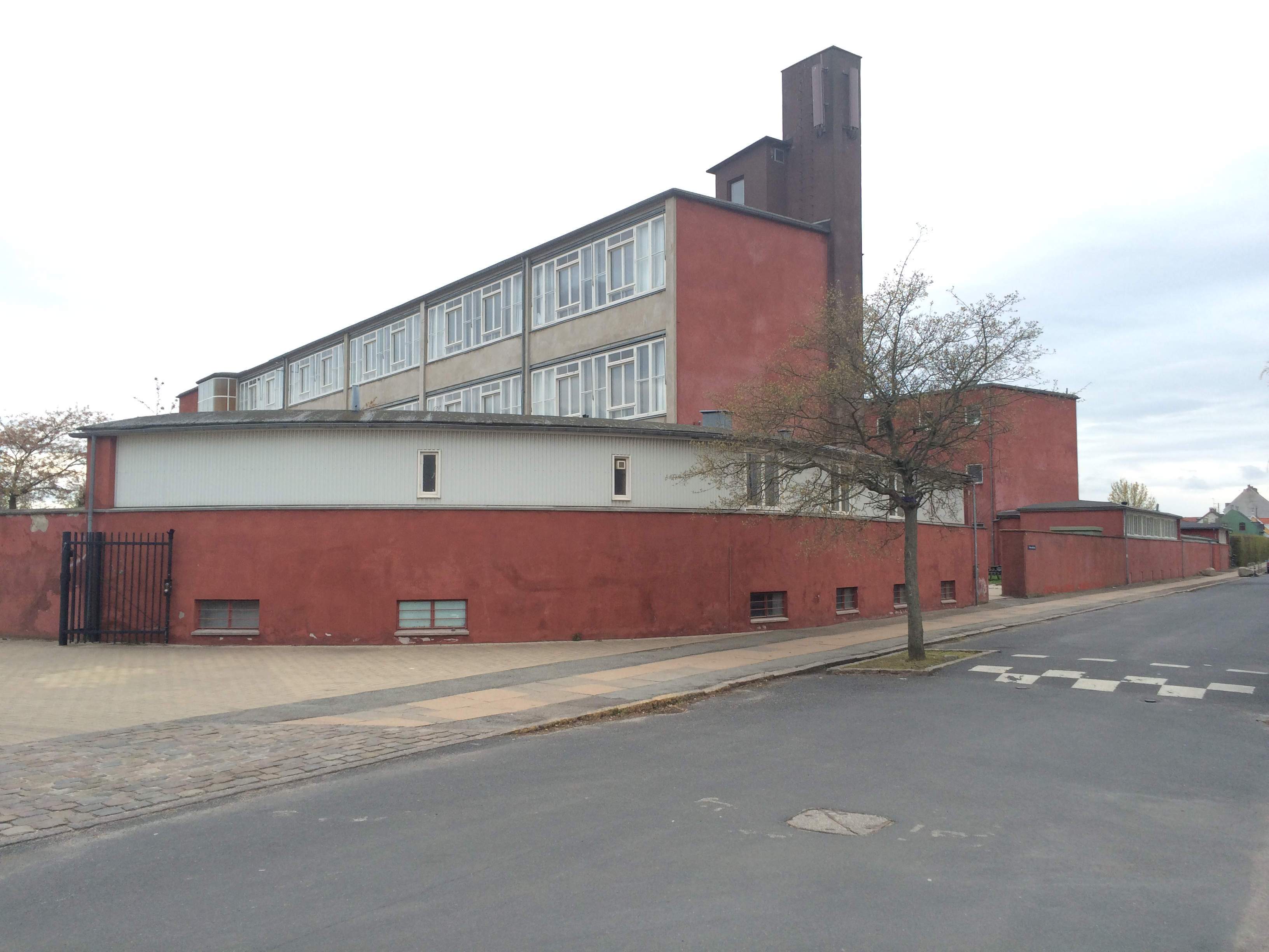 Skolen ved Sundet, a public school in Copenhagen, Denmark